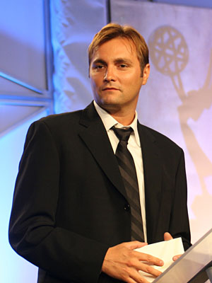 2007 South East Emmy Awards, Atlanta, Georgia, USA